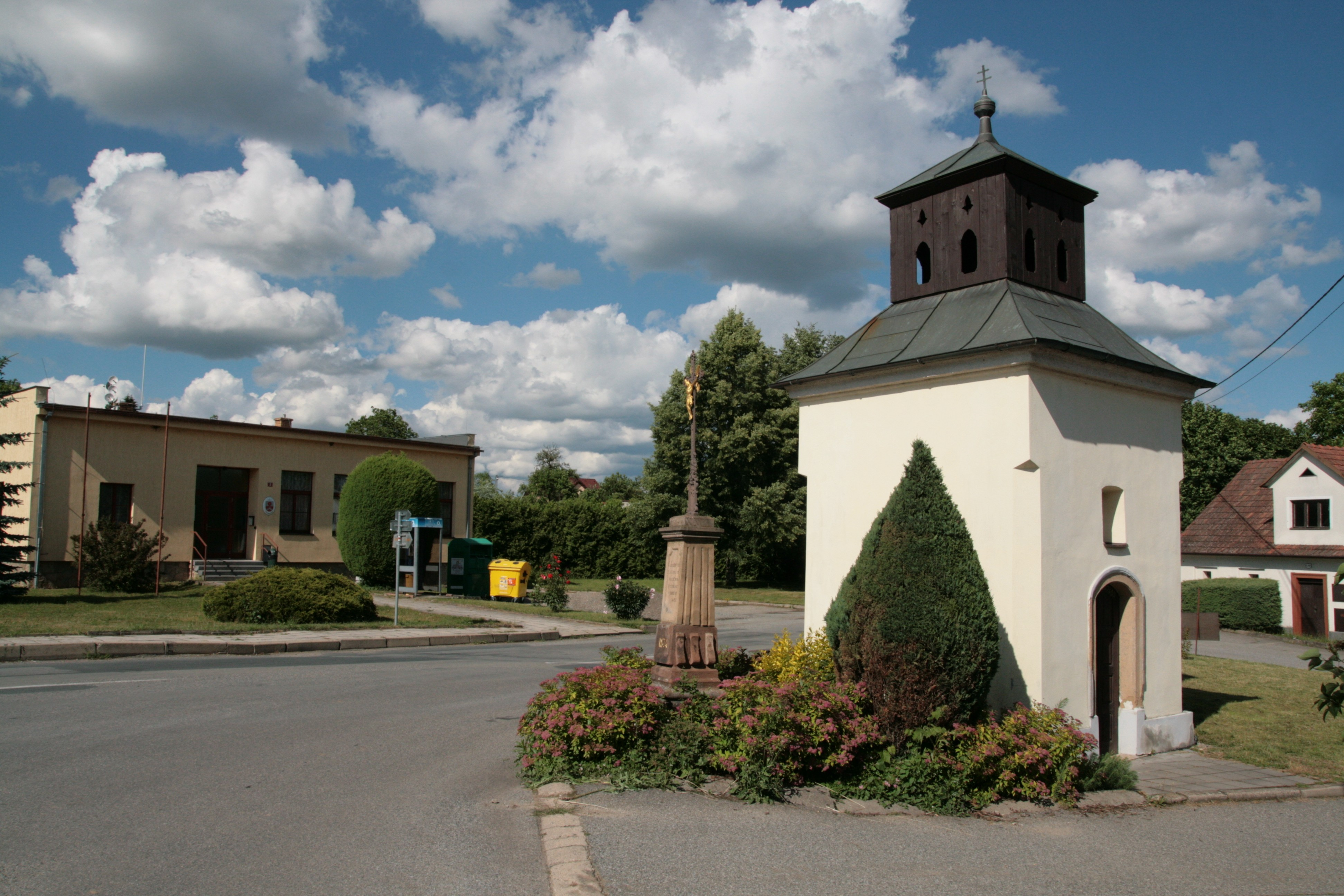 Žernovník, Blansko District, Czech Republic. Municipal authority house (left) and chapel of Saint Lawrence at the village square.